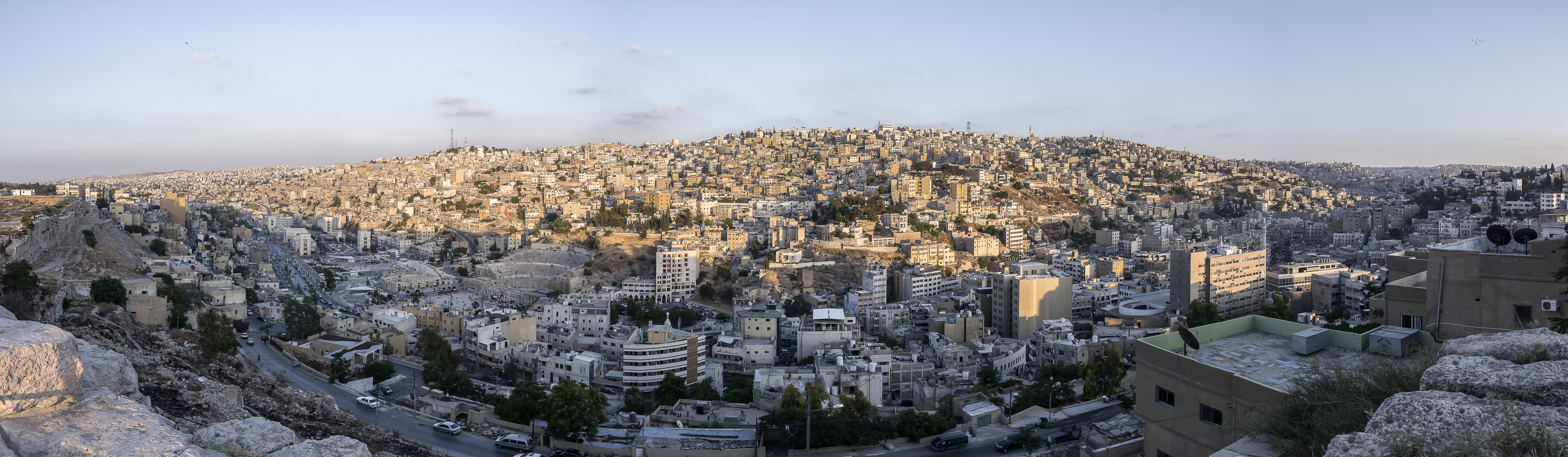 East Amman panorama